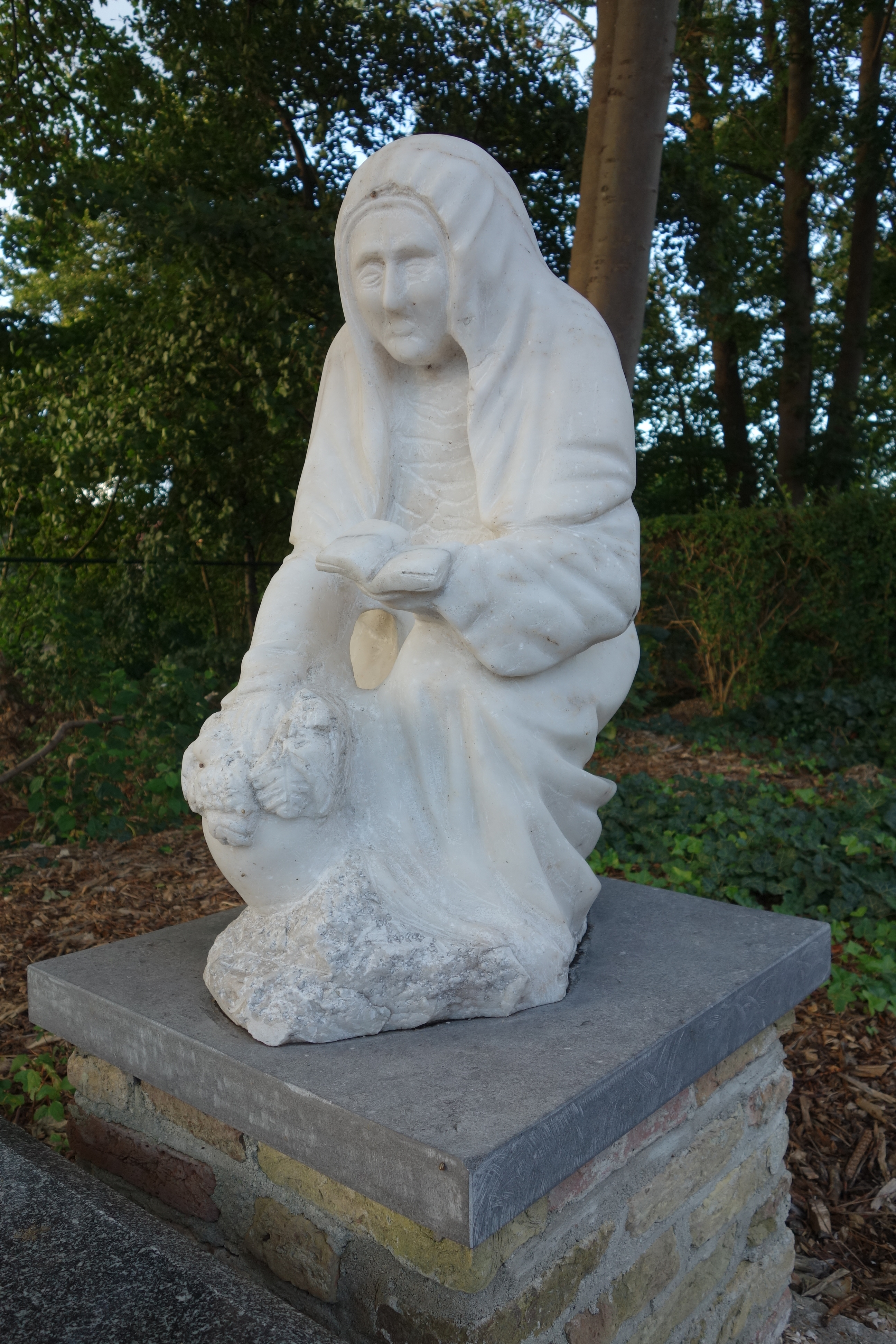 Sculpture of a nun on a grave where a dozen nuns was burried. Nuns were burried here after being found during archeological diggings between 2005 and 2008. Reburried in 2010.